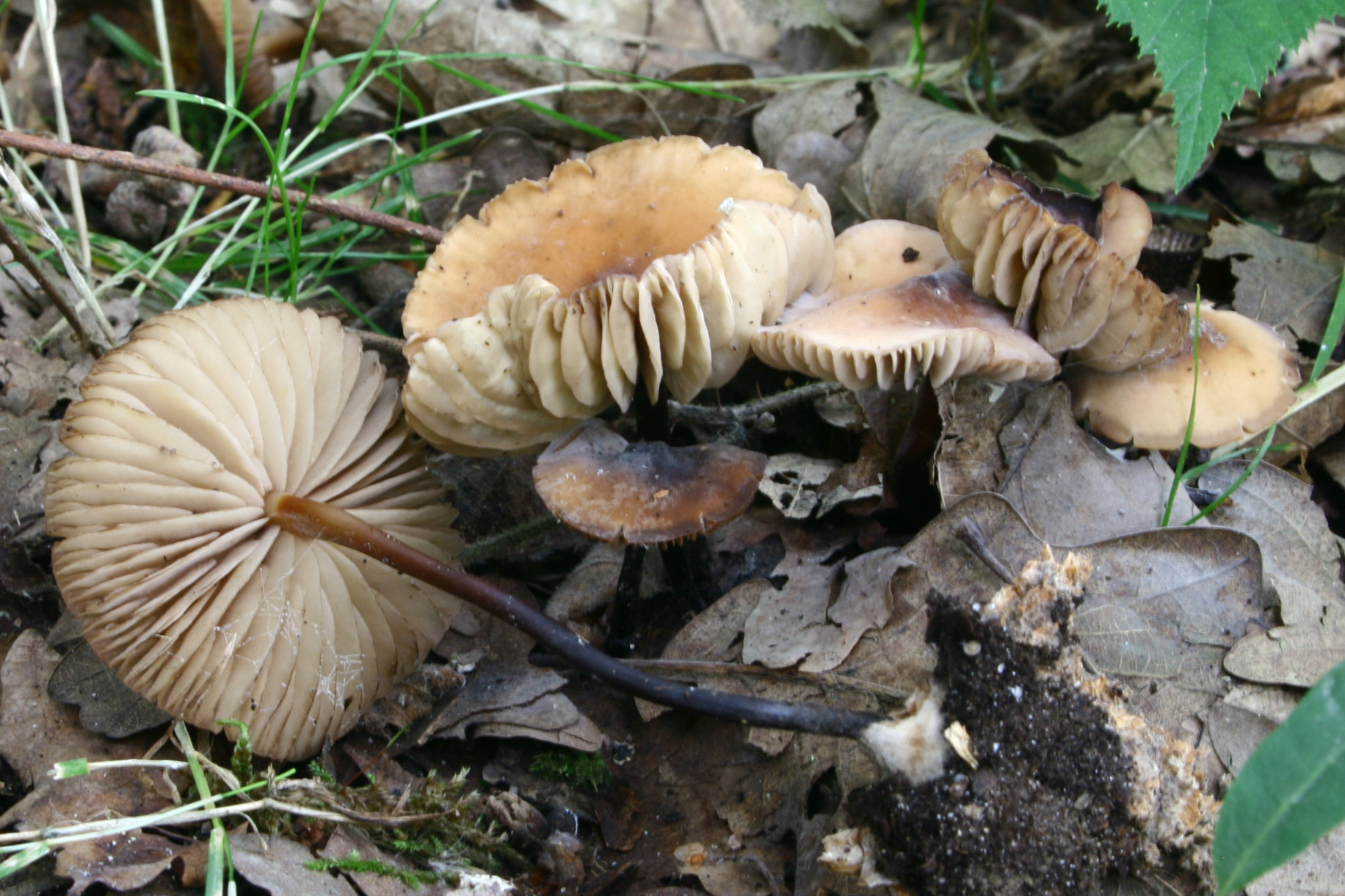 Marasmius cohaerens in a wood near Rambouillet, France.